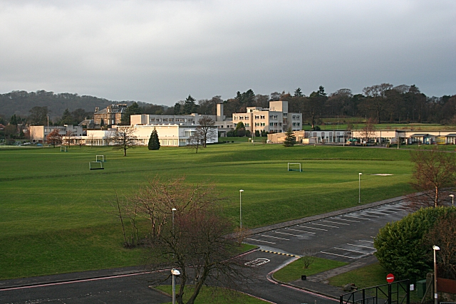 The Mary Erskine School An independent school for girls aged 11 to 18, the Mary Erskine School is linked to Stewart's Melville College. It was founded in 1694, and moved to Ravelston in 1966. The 1960s concrete-and-glass of the new buildings sits ill with the Georgian Ravelston House which they partly obscure.